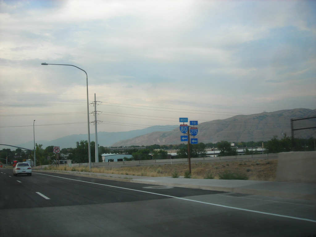 Utah State Route 68 at its junction with Interstate 80